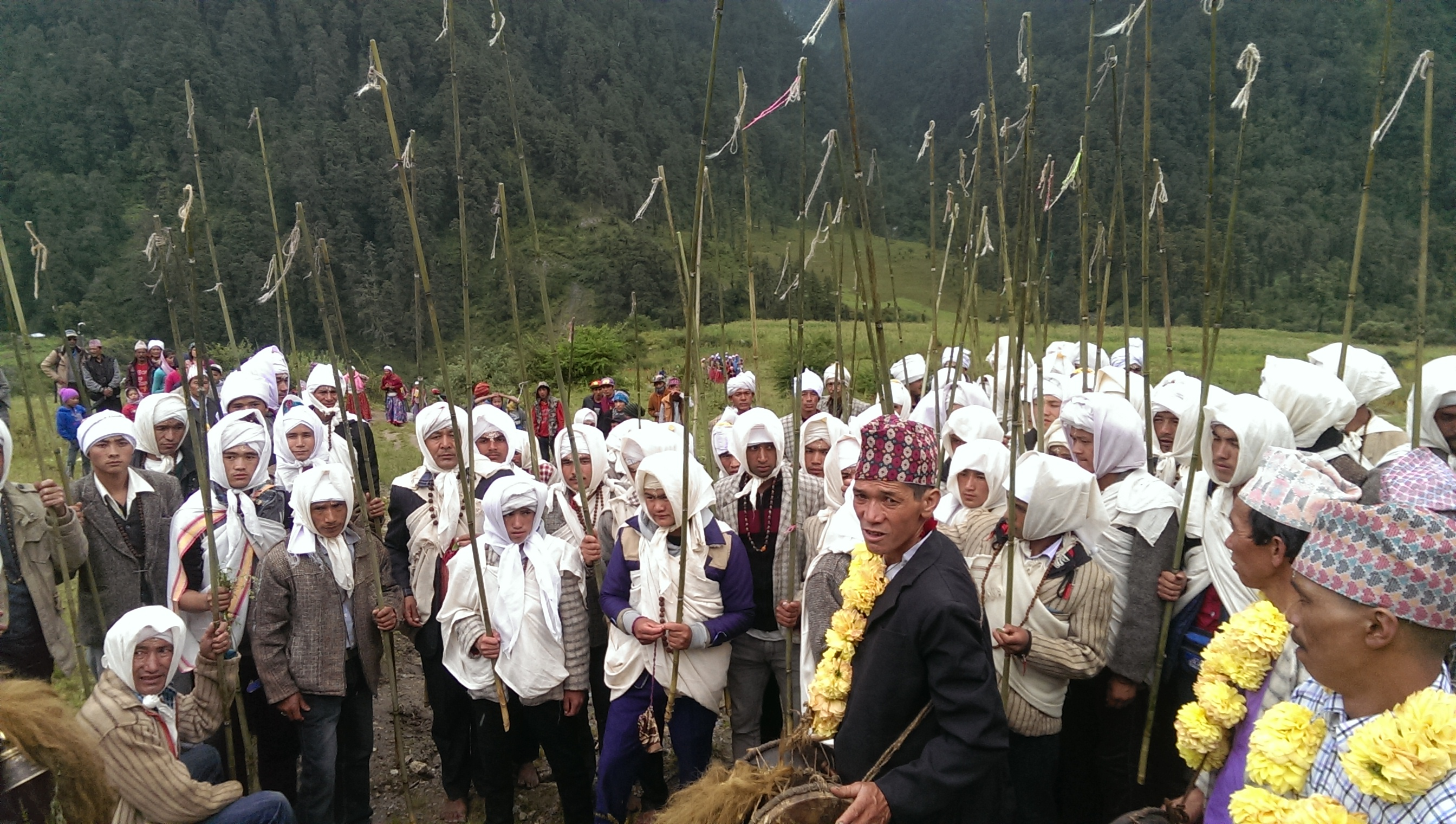 सुर्मा सरोवर जात्रा